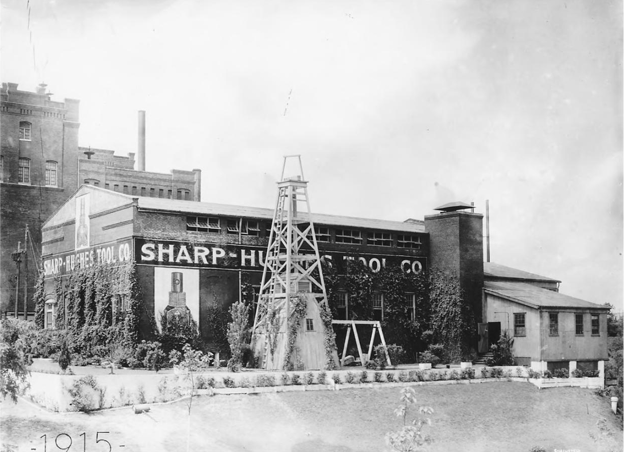 Sharp-Hughes Tool Company, later renamed just Hughes Tool Company, at its manufacturing building at the intersection of Second and Girard Streets, Houston, Texas. It moved there in 1912. Prior to the renovation of the red-brick gothic building to fit Sharp-Hughes's needs for manufacturing two-bit rotary drills, it served as a Armour and Company meatpacking plant. Today, the site of the building (now demolished) is on the campus of University of Houston–Downtown), where an unlabeled outdoor sculpture of an drill bit marks the approximate former location of the building (the sculpture being several hundred feet southeast of the actual location on the southeast end of the Jesse H. Jones Student Life Center, where as the building was located on the opposite, northwest end of the Center).